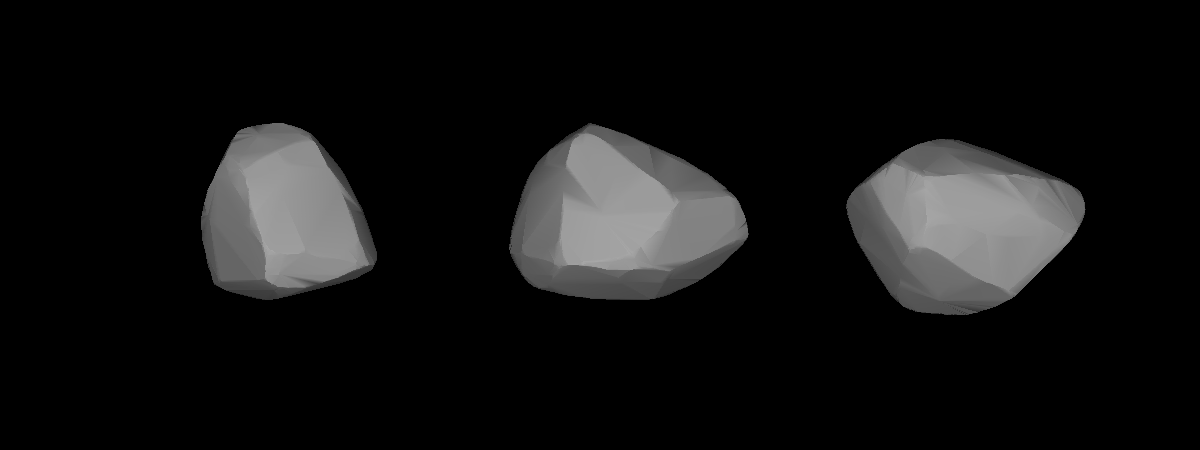 A three-dimensional model of 550 Senta that was computed using light curve inversion techniques.